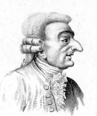 Italian violinist and composer Gaetano Pugnani (1731-1798).